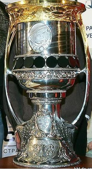 Gagarin Cup